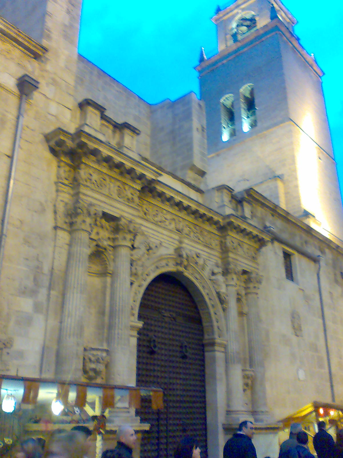 Puerta de la Anunciación i la torre, les dues de la Catedral d'Oriola.